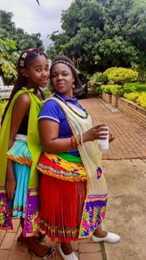 on the way to lobola celebration This is an image of music and dance from South Africa